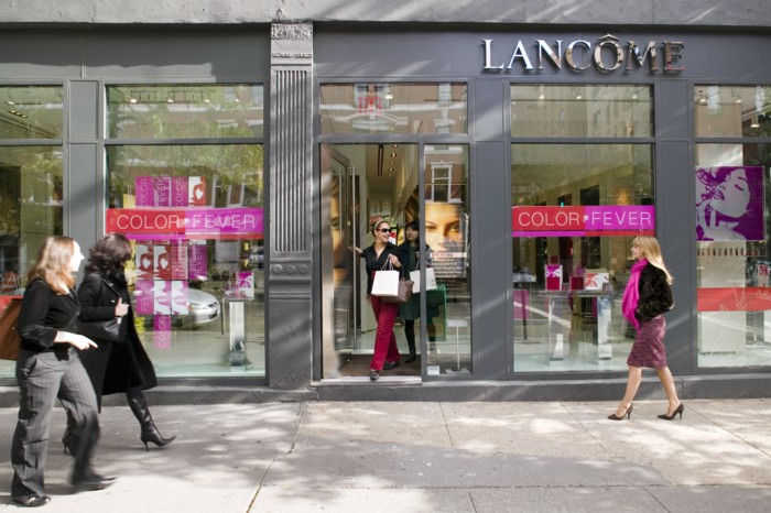 Exterior shot of Lancôme Boutique on NYC's Upper West Side (201 Columbus Ave, corner of 69th Street). It's no longer there as of 2015, though the building is.